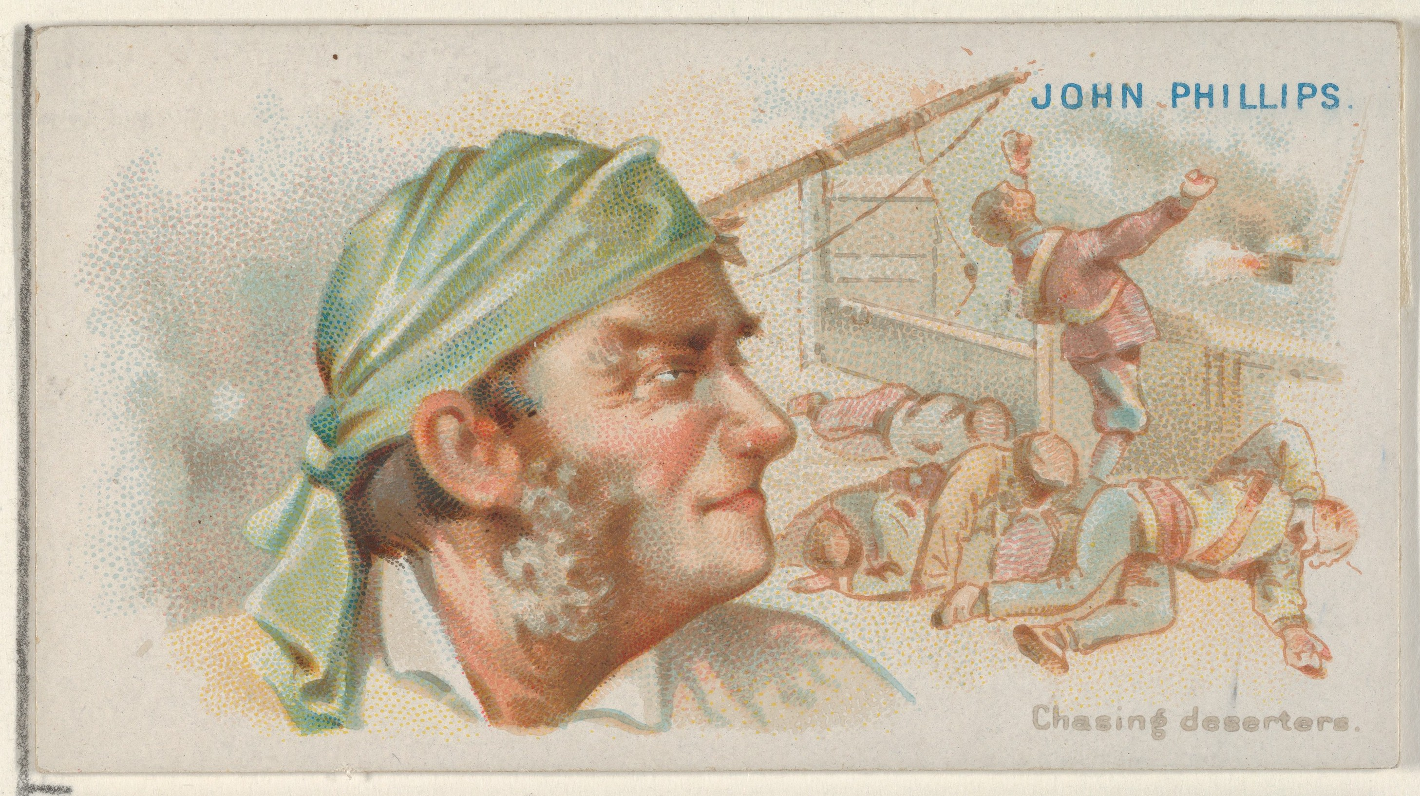 Print; Prints